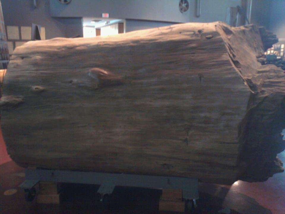 2,000 year old cypress log